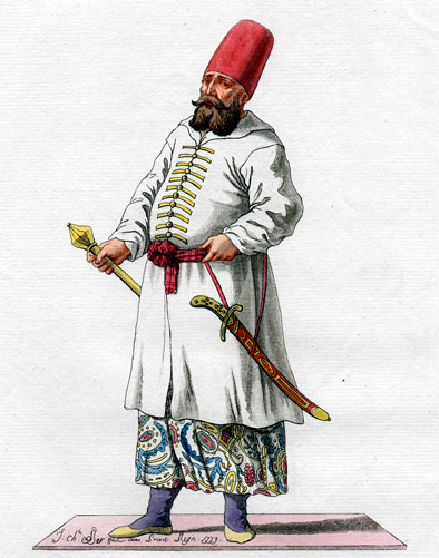 Painting of a Mamluk. Trans: "Mamluk, in typical attire."